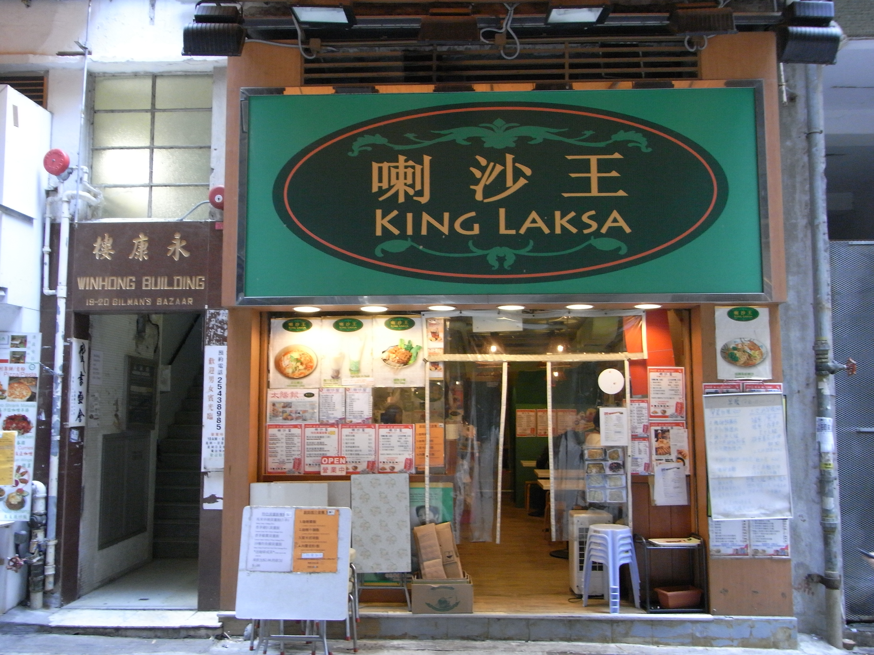 中環機利文新街